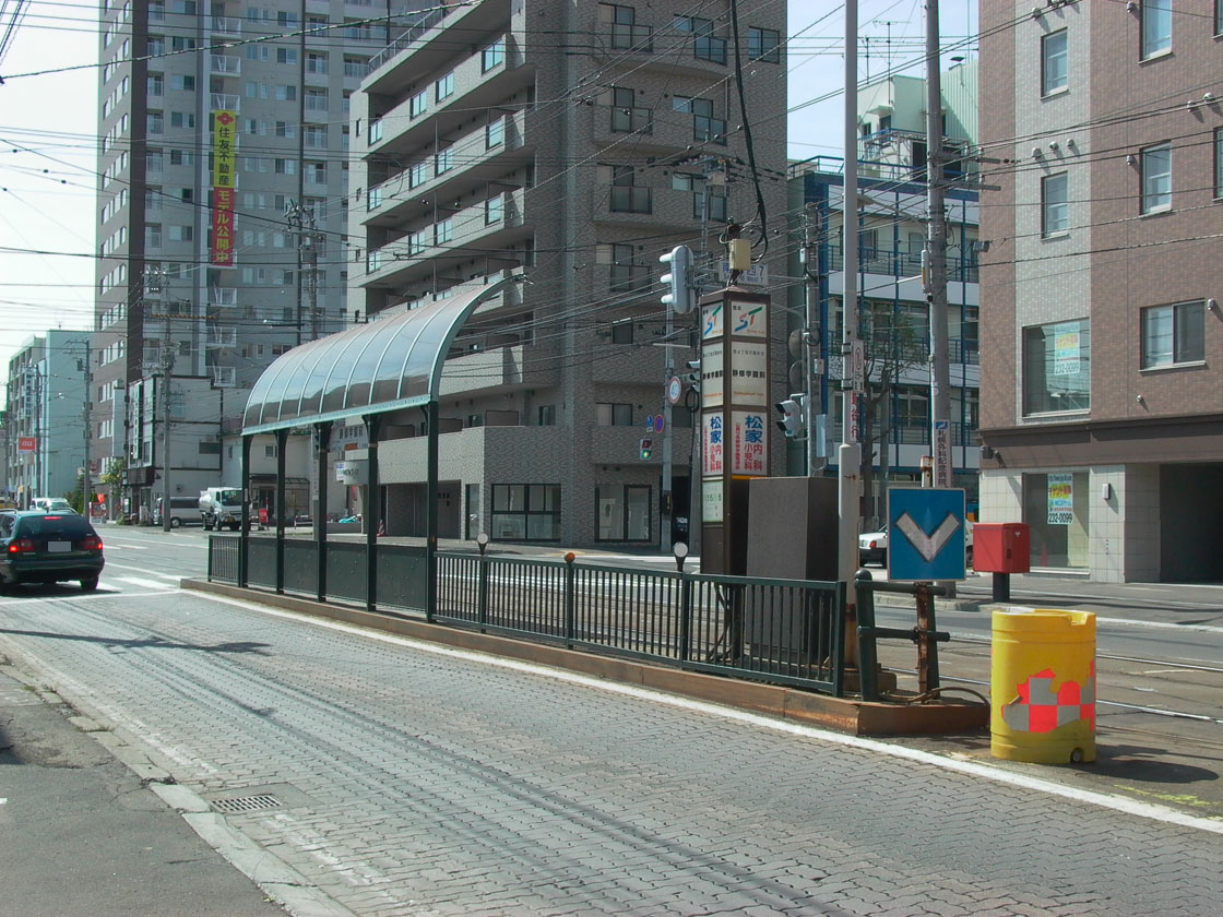 Seishu Gakuen-mae station Sapporo, Hokkaido, Japan